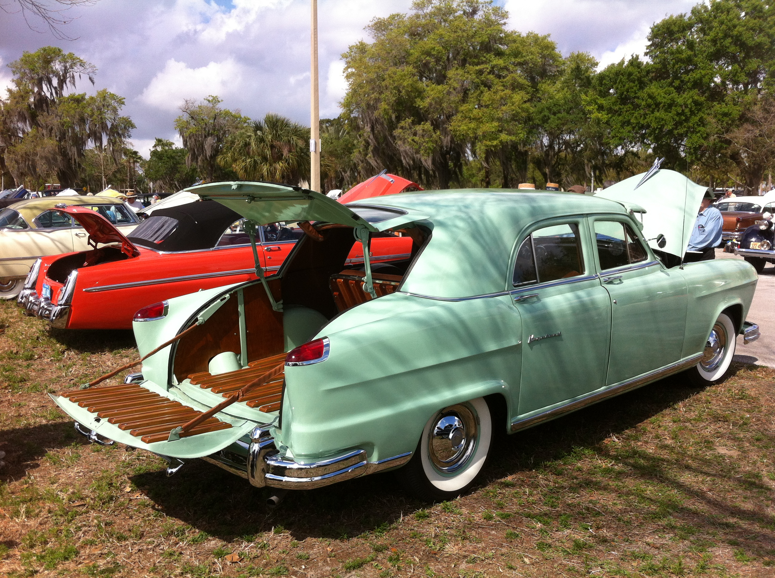 1951 Kaiser-Frazer Vagabond. An innovative hatchback designed four-door sedan. Picture taken at the 2013 Antique Automobile Club of America (AACA) meet in Lakeland, Florida, USA.